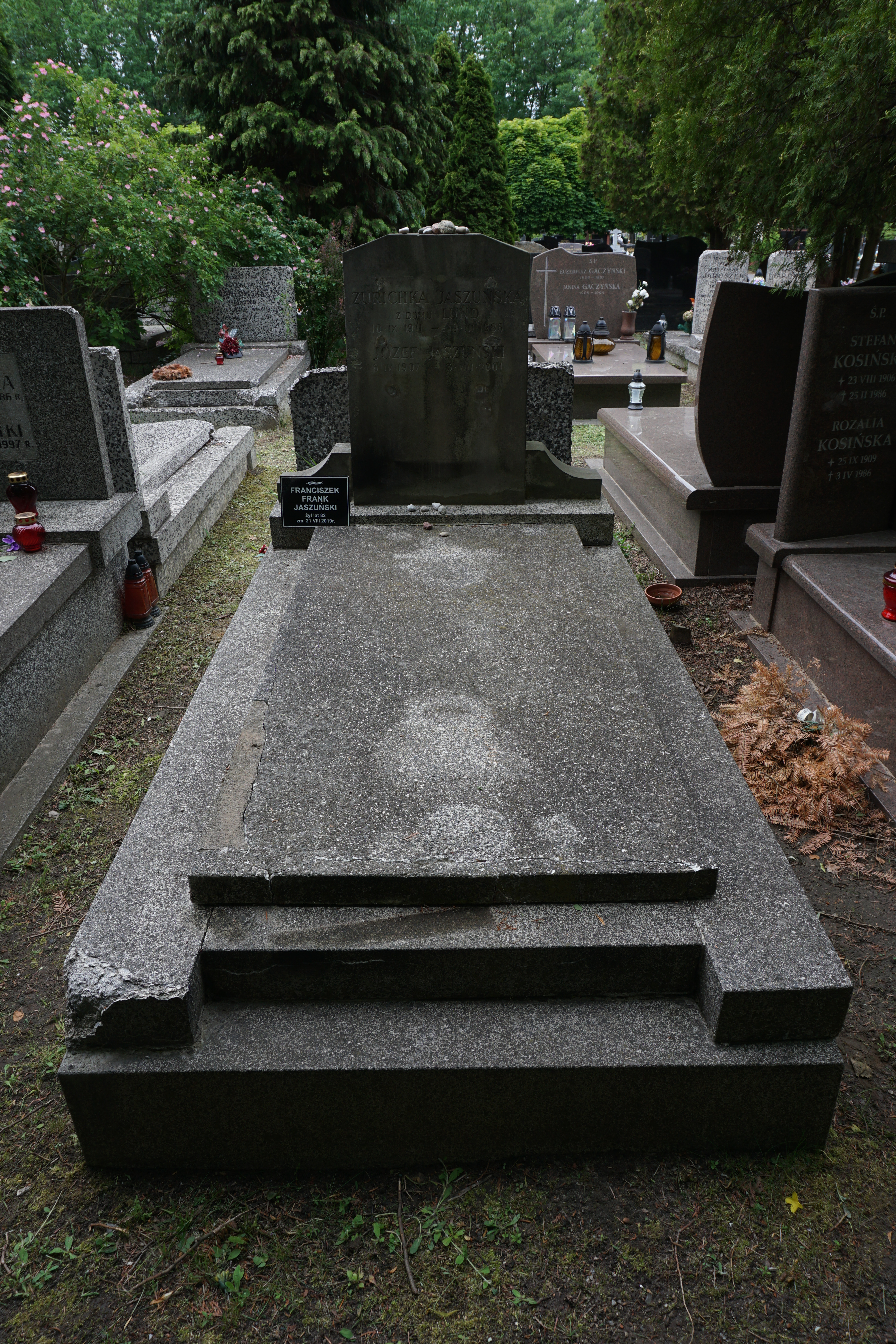 The grave of Józef Jaszuński at the North Municipal Cemetery in Warsaw (section E-VI-1, row 5, grave 6)